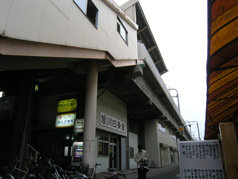 Asahikawa-Yojo Station